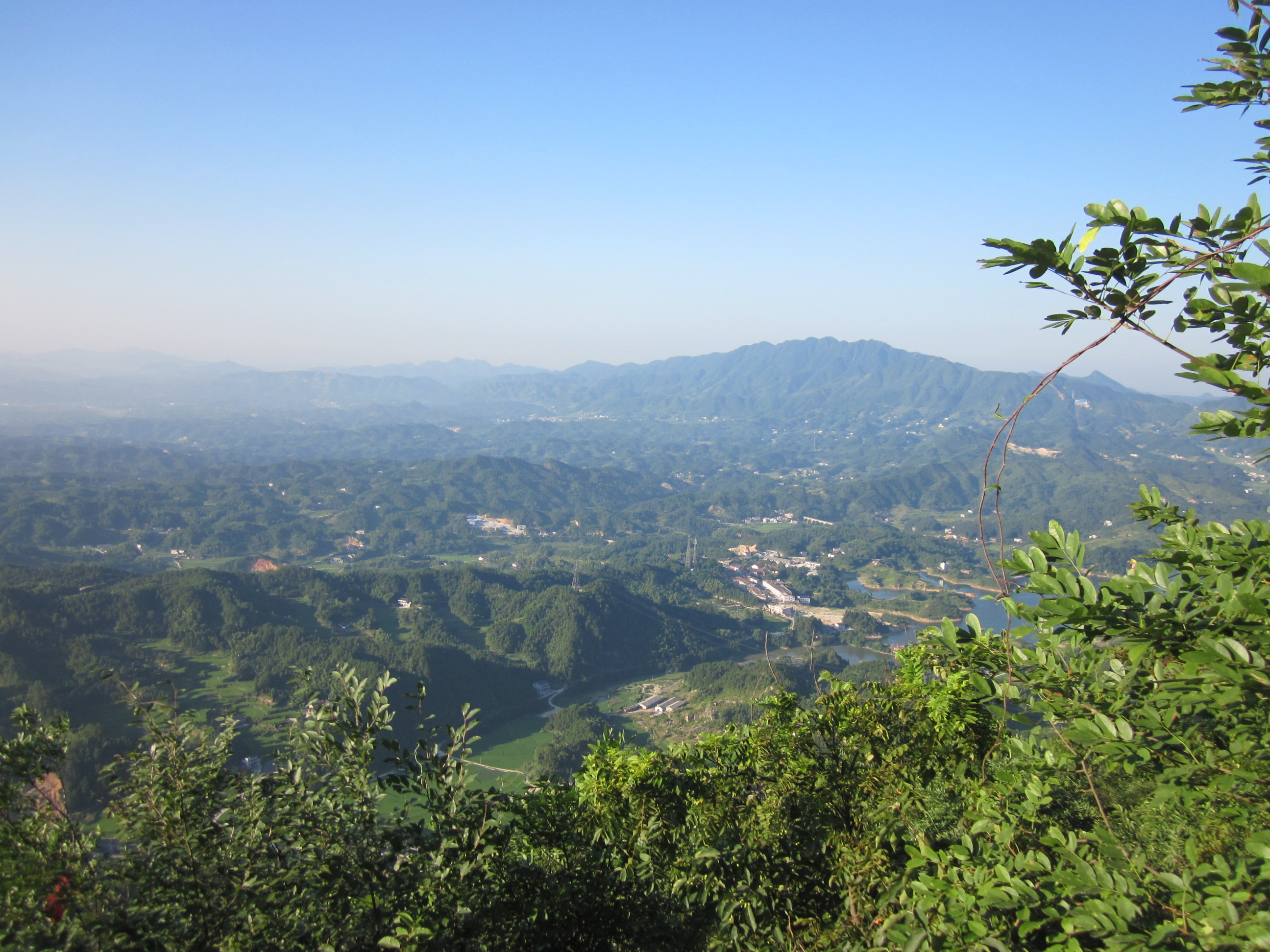 Puji Temple (Chinese: 普济寺; pinyin: Pǔjì sì) is a Buddhist temple located in Qing Shanqiao Town,Ningxiang County,Changsha City,Hunan province, China.